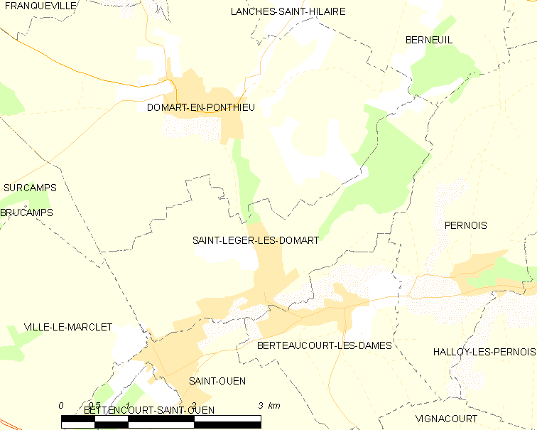 Map of French municipality Saint-Léger-lès-Domart